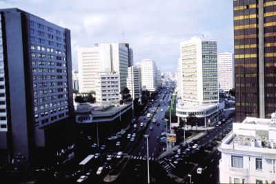 Shot of Casablanca Morocco Boulevard of R.F.A ( Royal Forces Army )